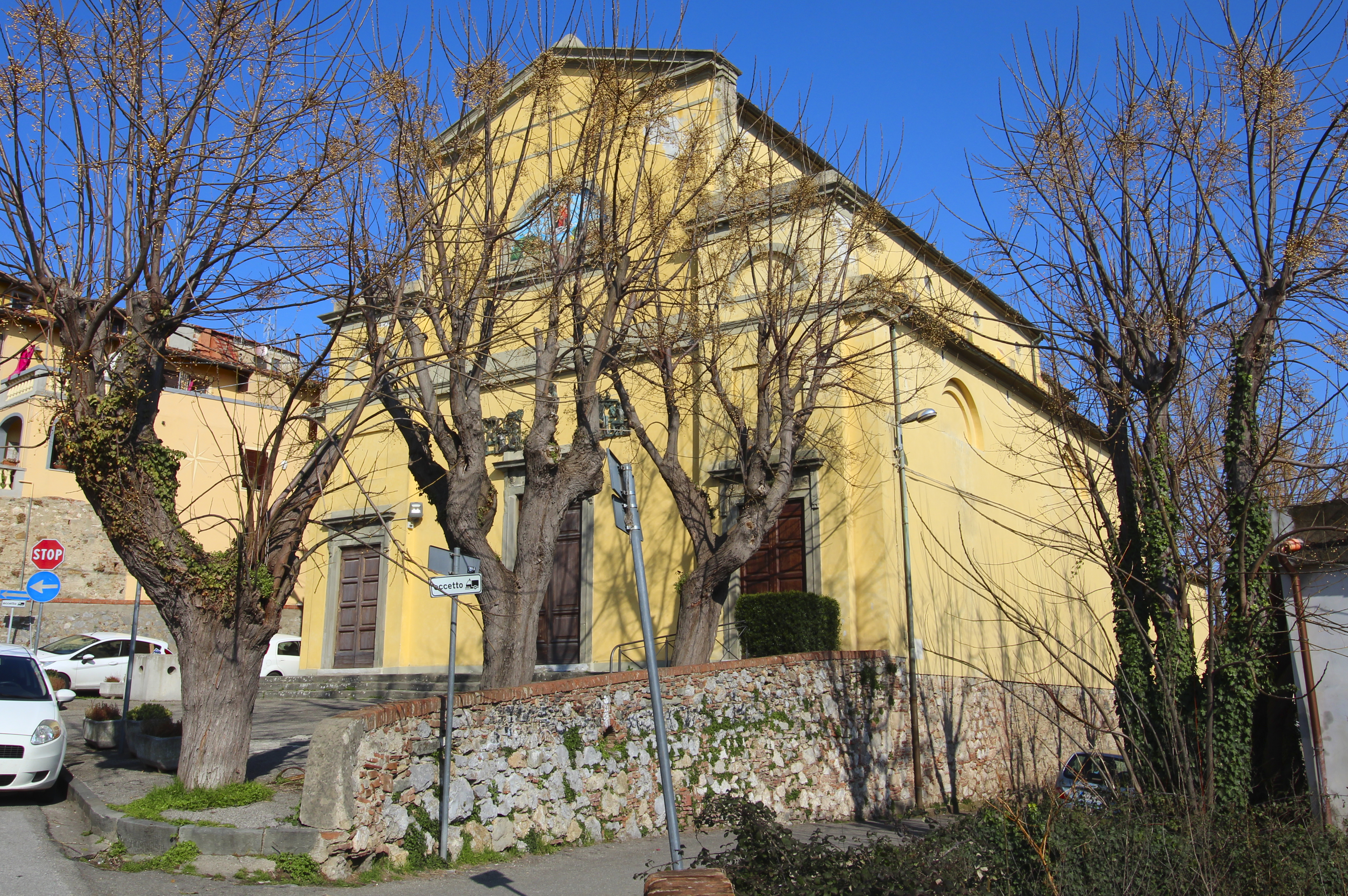 Church San Giovanni Evangelista, San Giovanni alla Vena, hamlet of Vicopisano, Province of Pisa, Tuscany, Italy